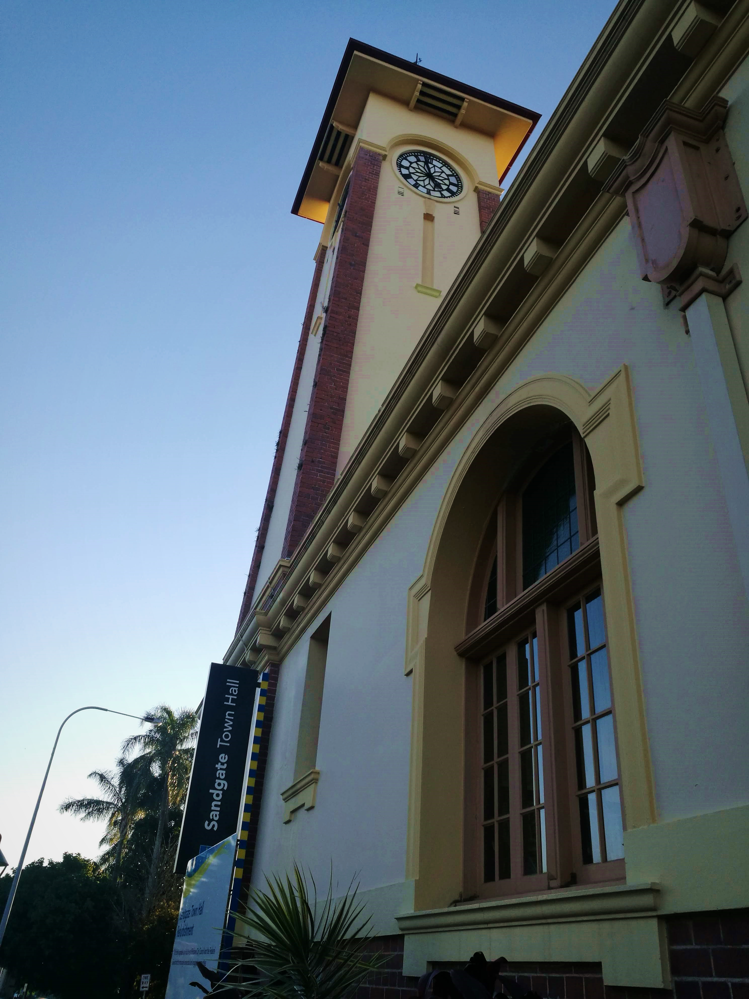 Clock tower and window in the evening sun.